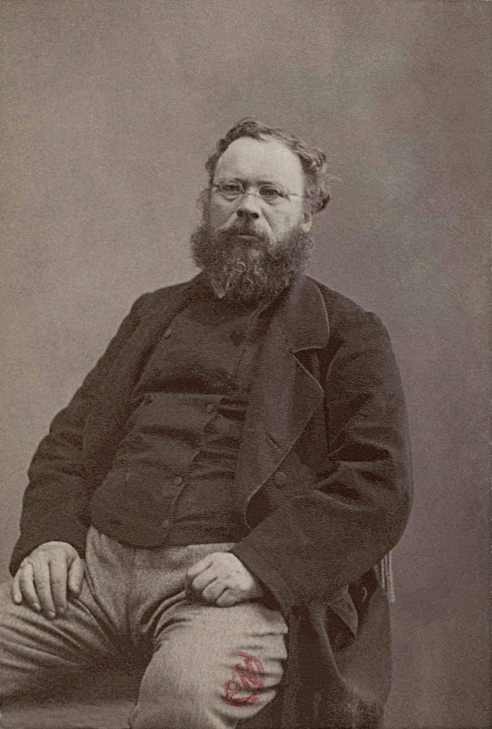 Pierre-Joseph Proudhon (1809 - 1865).